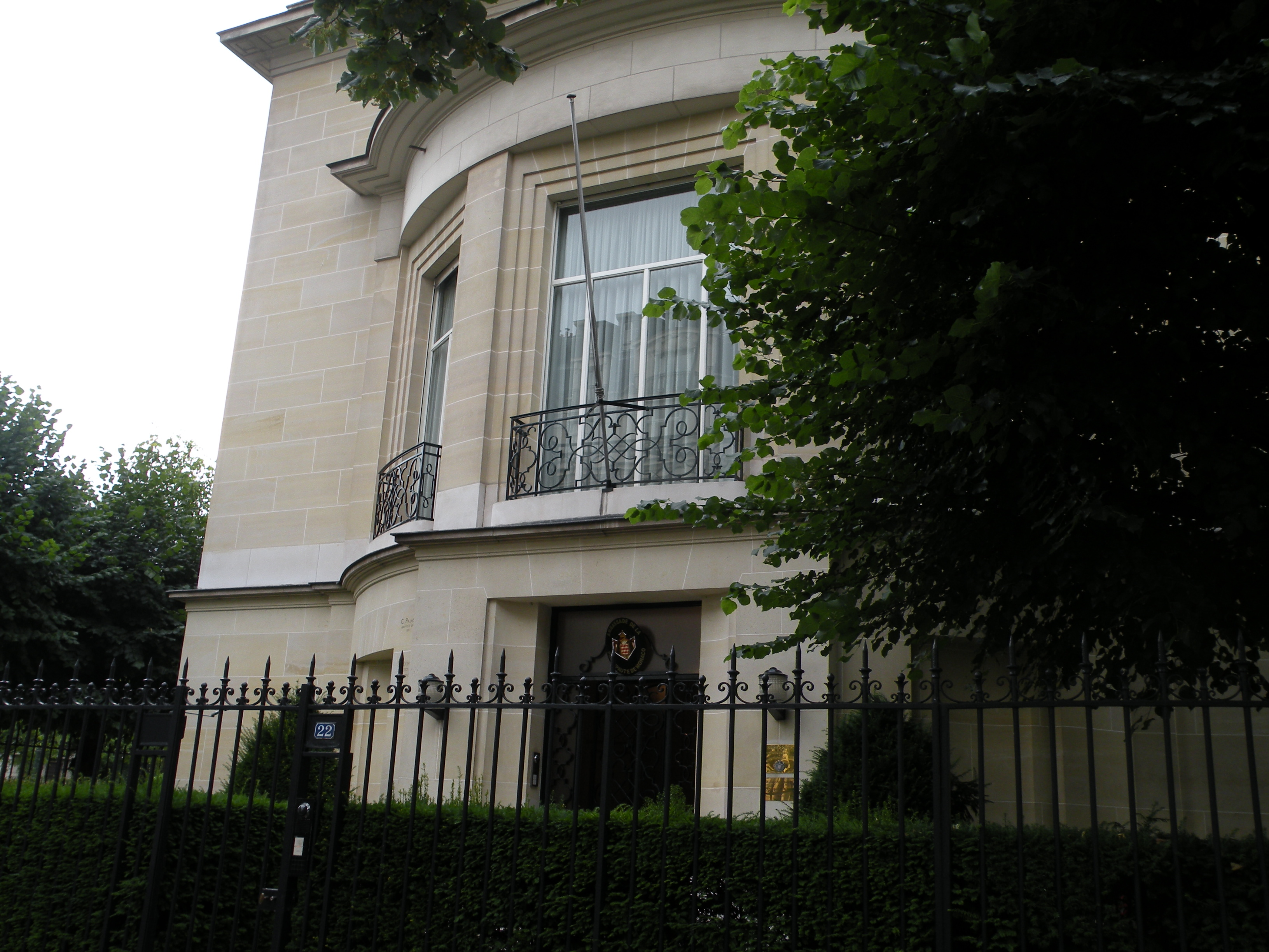 Monegasque embassy in France, Paris.